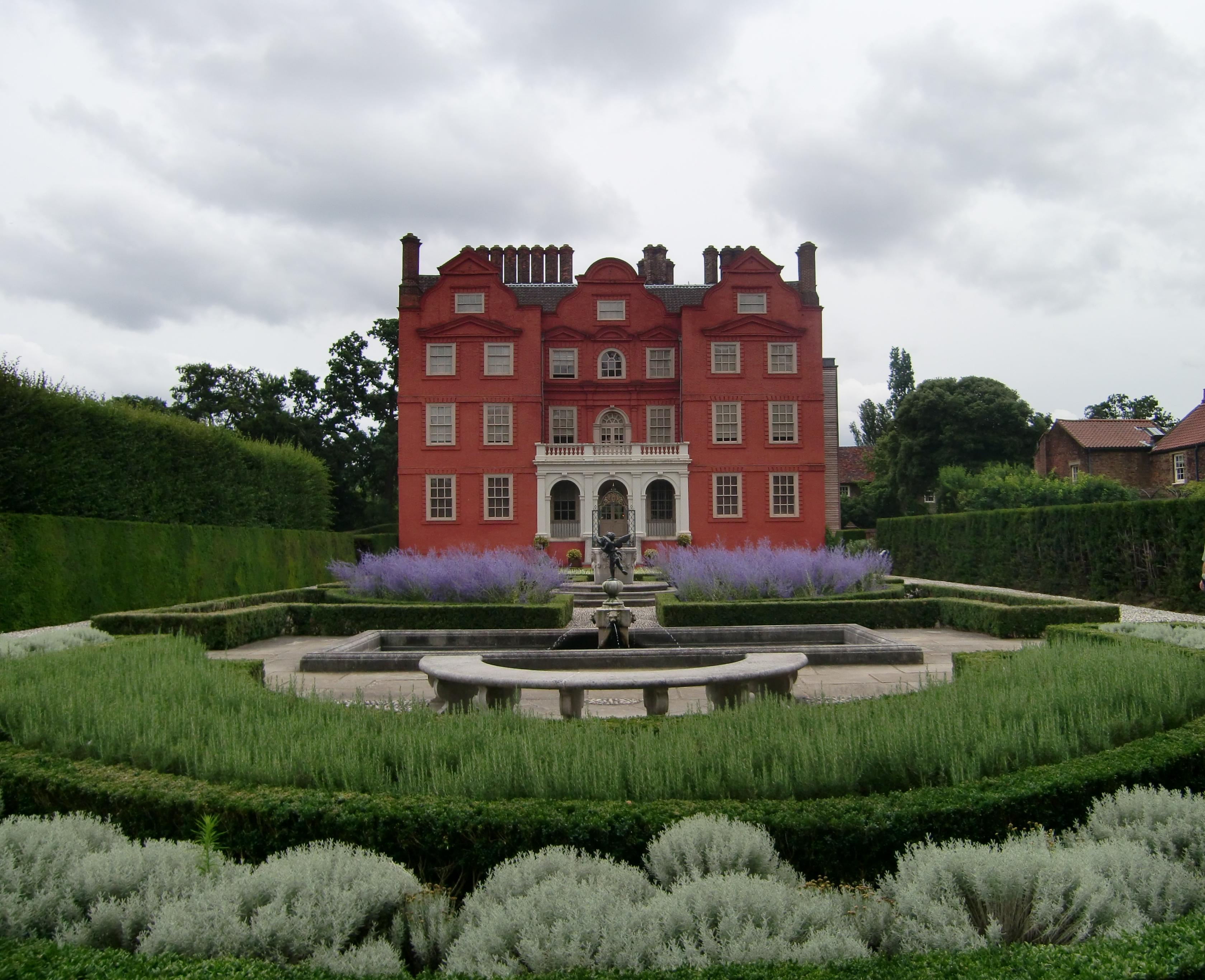 Rear view of Kew Palace, with the Queens Garden.